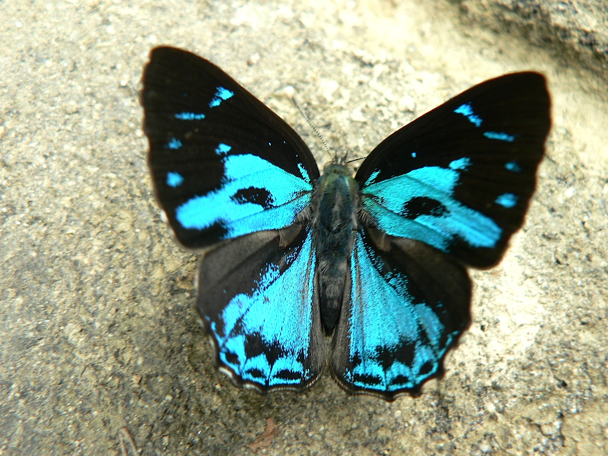 Photo taken of Common gem in Namdapha National Park & Tiger Reserve in October 2007.